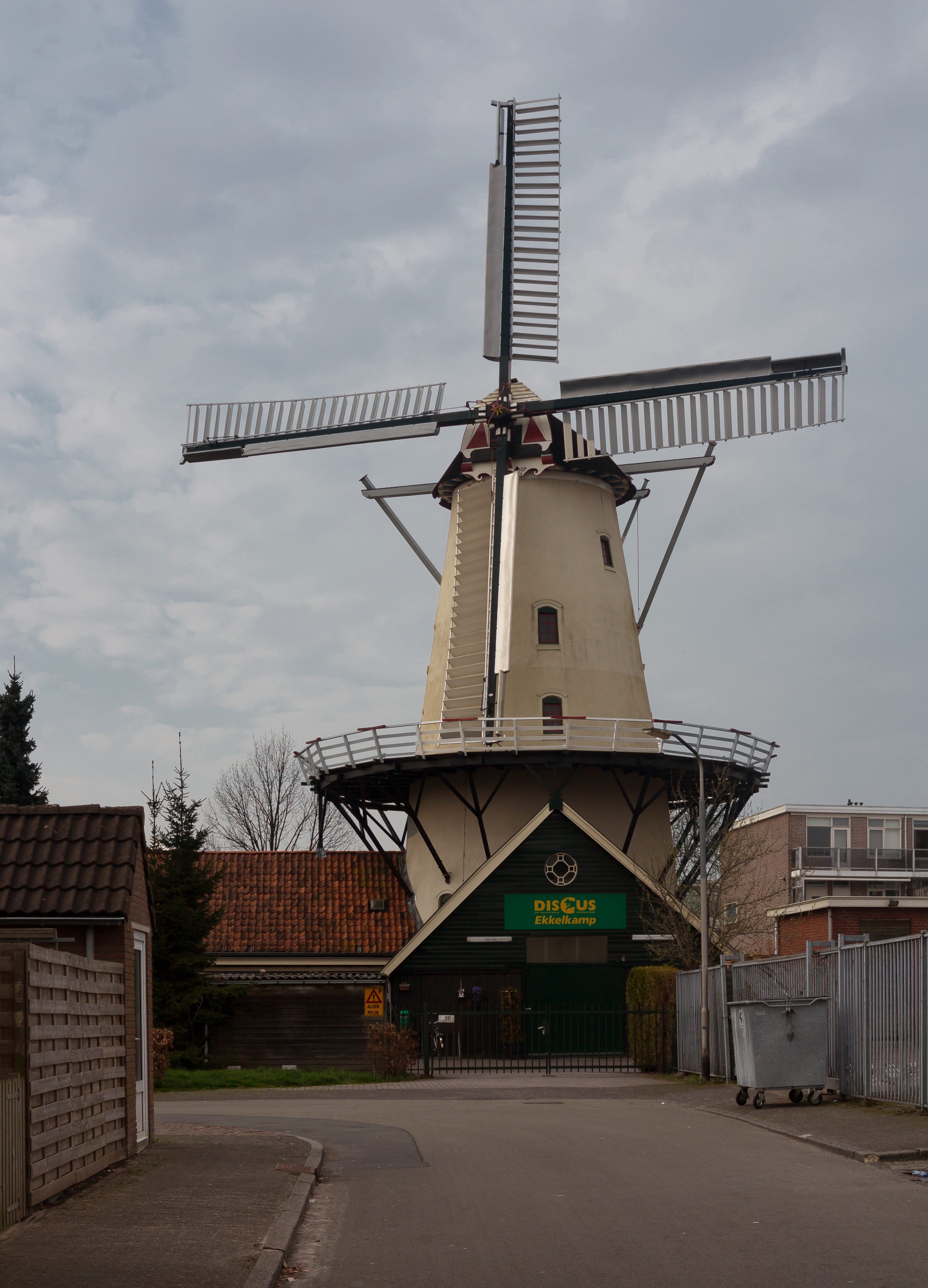 Haren, windmill: koren-en oliemolen de Hoop